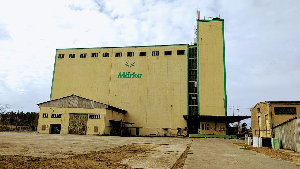 The newspaper Neues Deutschlang writes on November 3rd, 1972: "A modern concentrate feed plant with an annual output of 60.000 tonnes was handed over in Biesenthal, Bernau district. The new plant will in future supply the VEB (state-owned enterprise) KIM (State Combine Industrial Fattening) Bernau and the VEB Pig Breeding and Fattening Combine Eberswalde with high-quality compound feed." The plant is out of service today (2019) and is no longer used.